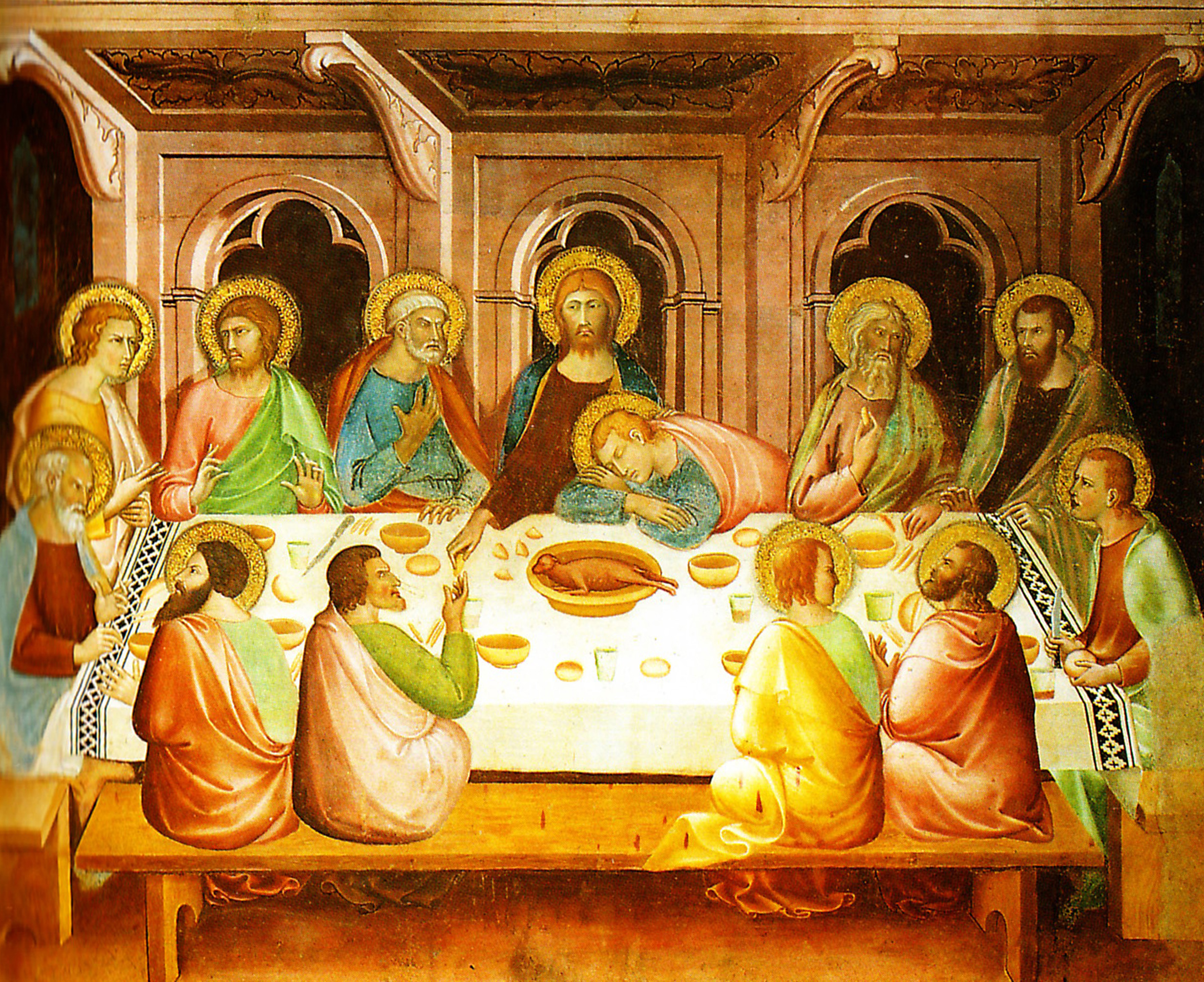 New Testament cycle